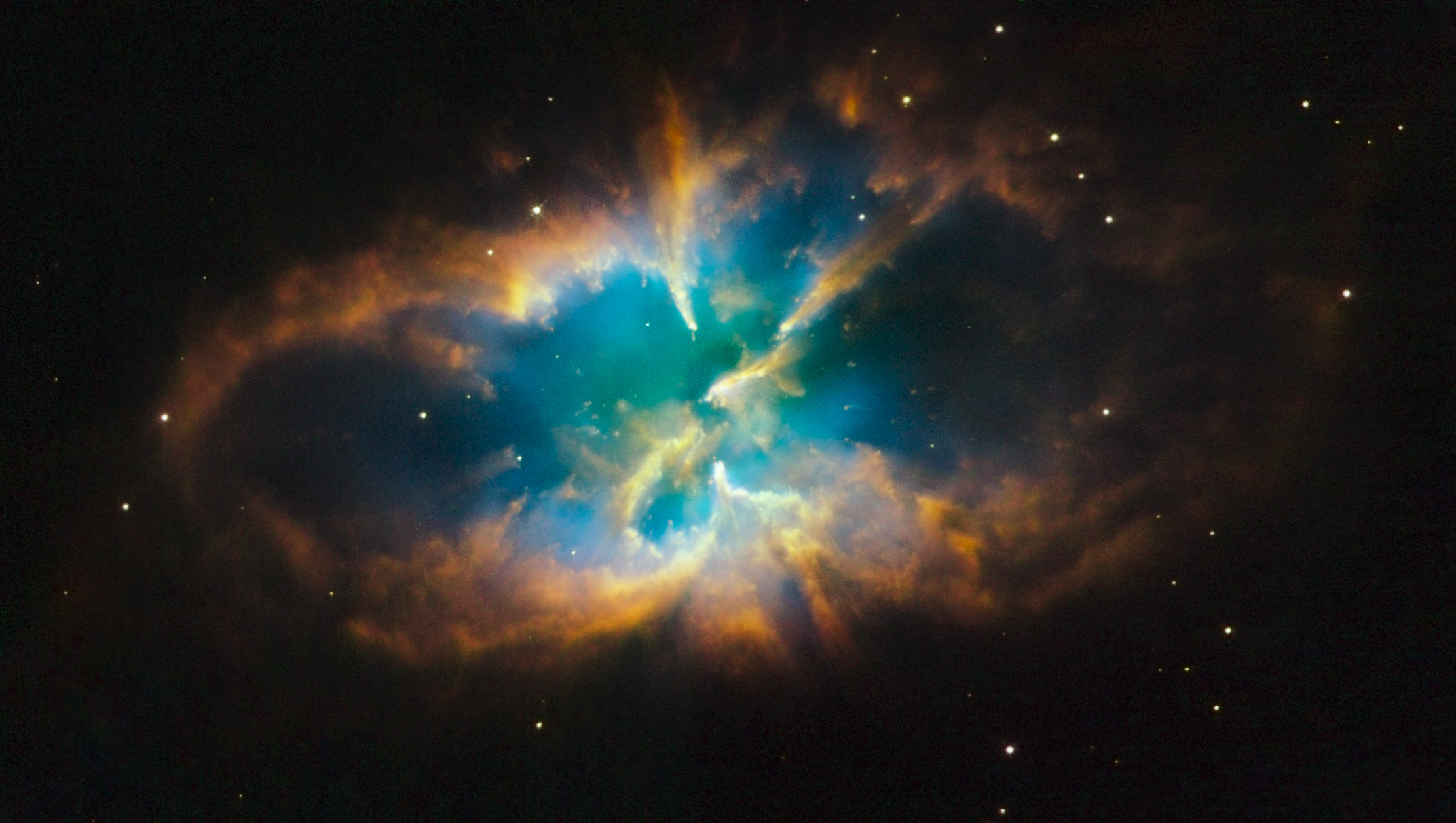 A Hubble Space Telescope photo of the planetary nebula NGC 2818, one of few planetary nebulae in the Milky Way residing inside a star cluster.